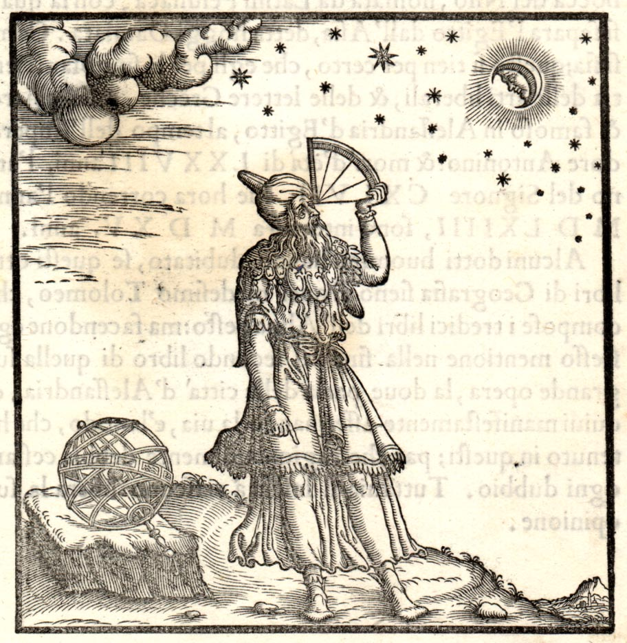 Ptolemy from "CLAVDIO TOLOMEO PRINCIPE DE GLI ASTROLOGI, ET DE GEOGRAFI" published by Giordano Ziletti